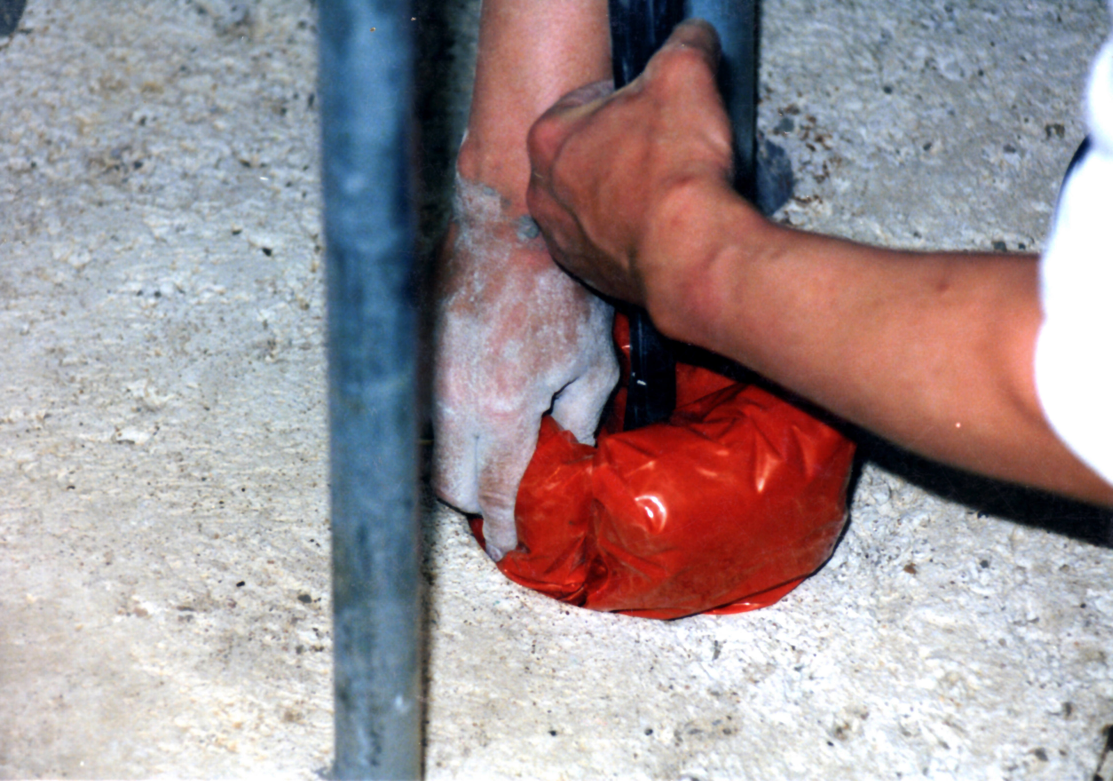 Firestop pillow demonstration/installation in a concrete slab mock-up.